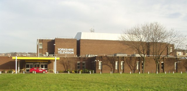 Yorkshire Television Studios, Kirkstall Road, Leeds.